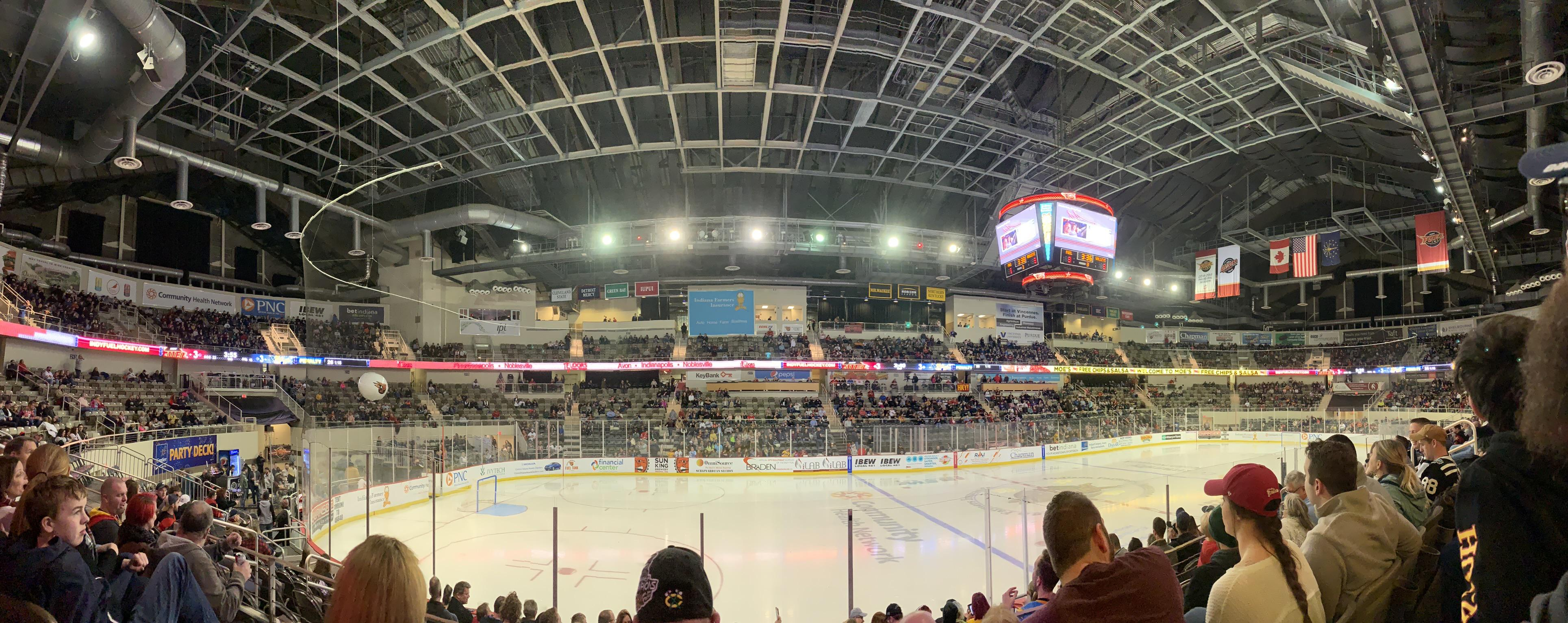 Indy Fuel V.S. Toledo Walleye on 3-6-20 By Reddit User FallbackSauce12